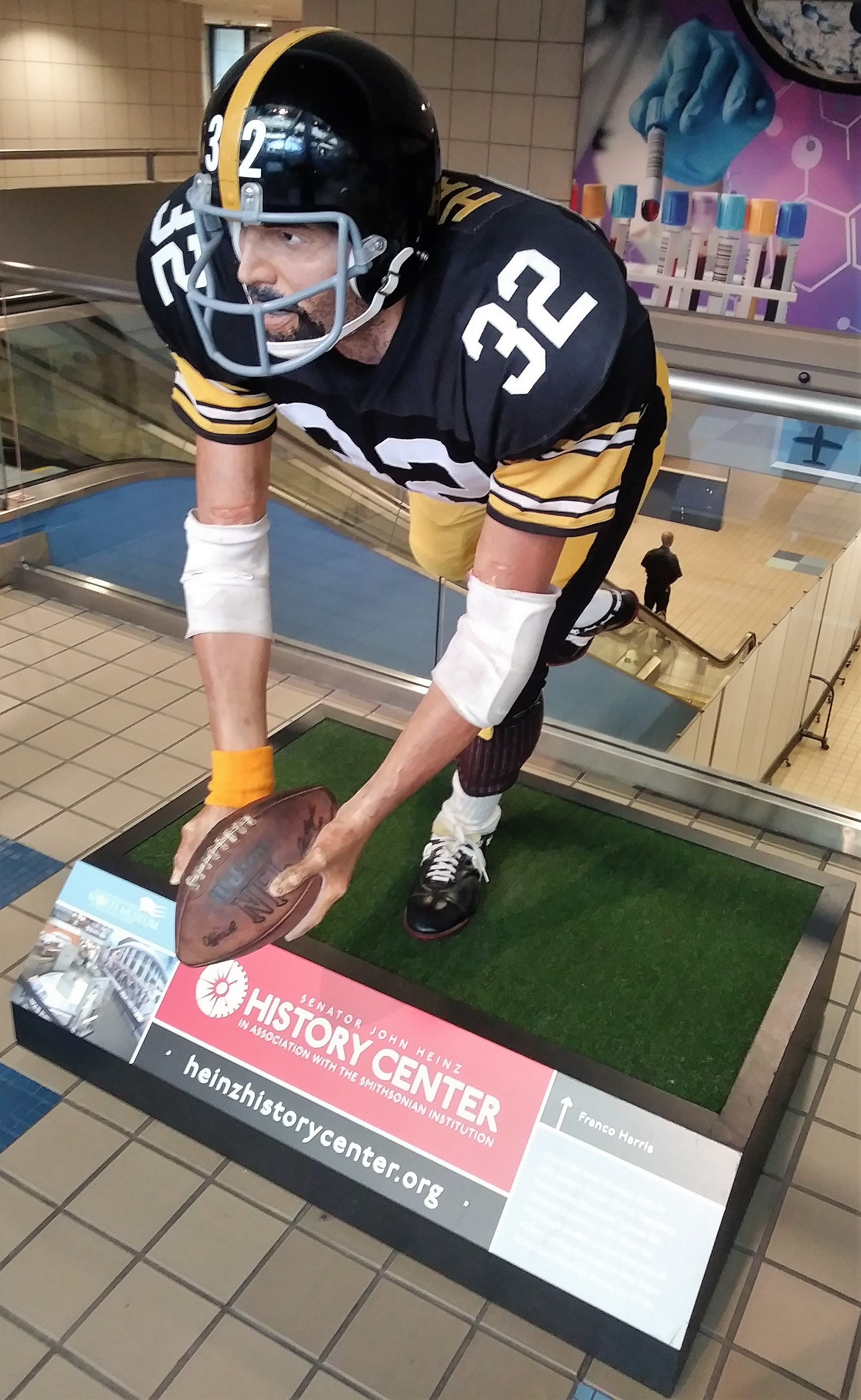 Statue of American footballer Franco Harris making the "Immaculate Reception" at Pittsburgh International Airport.